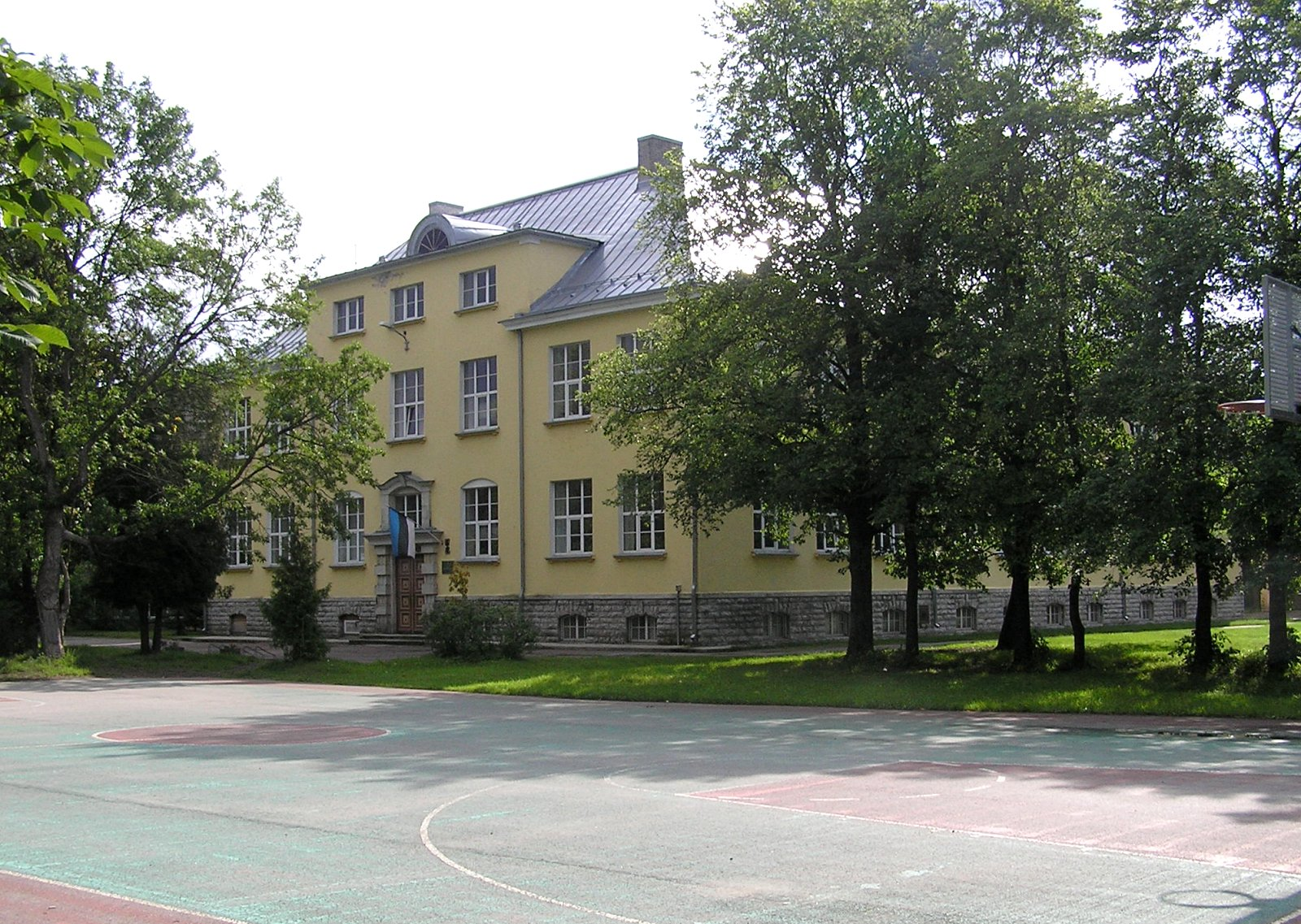 Nõmme Gümnaasium in Tallinn